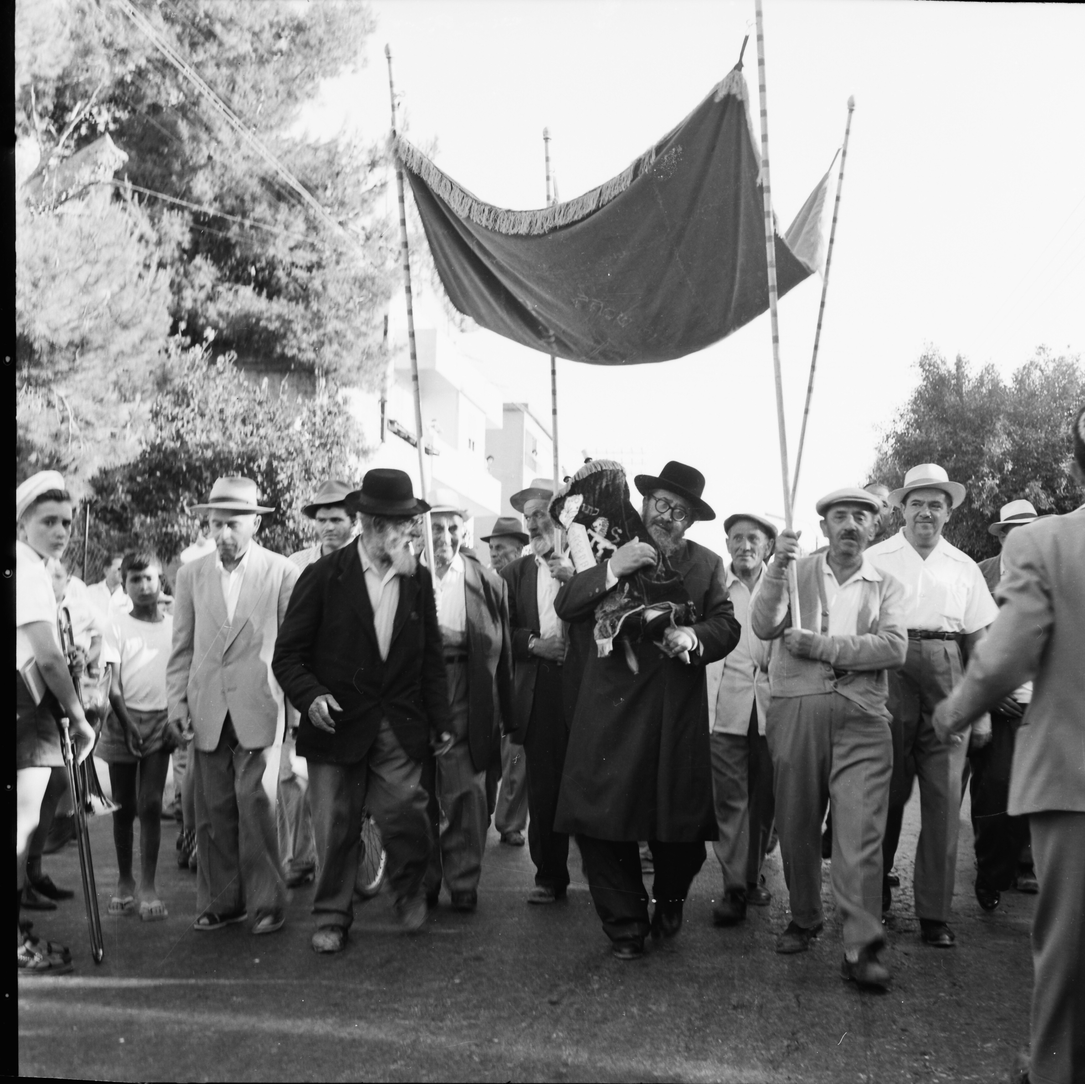 Religion in Israel